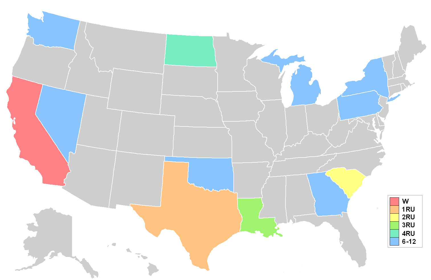 Map showing placements at the Miss USA 1983 pageant. Key on graphic shows colour coding for break down of placements.